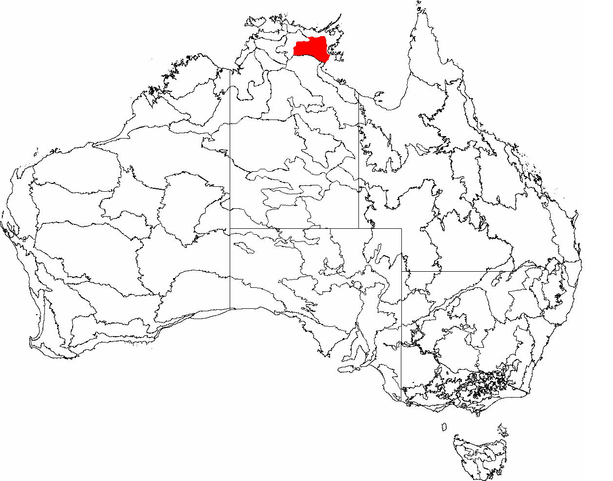 This is a map of the Interim Biogeographic Regionalisation of Australia (IBRA), with state boundaries overlaid. The Central Arnhem region is shown in red.